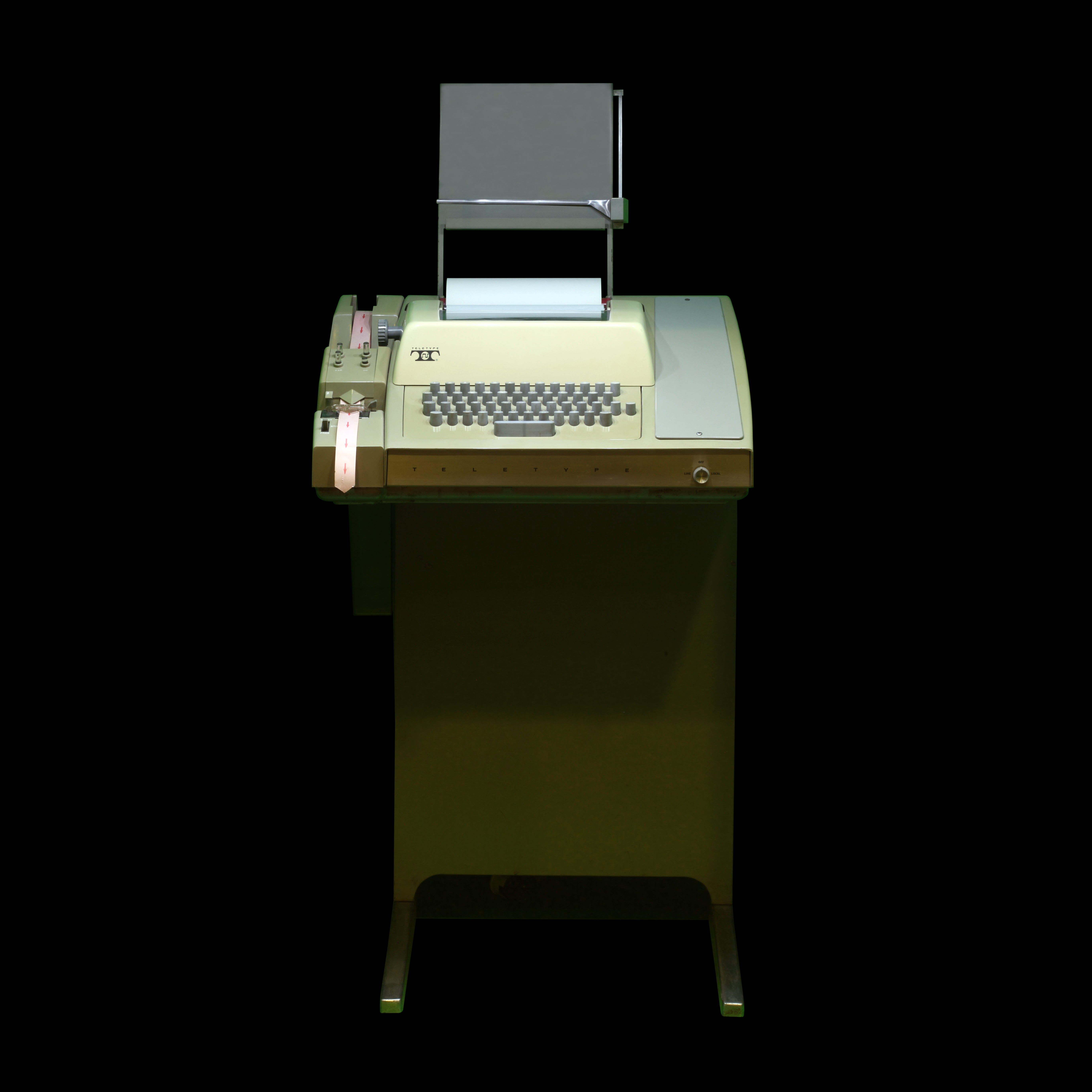 ASR-33 Teletype. On display at the Musée Bolo, EPFL, Lausanne. The making of this document was supported by Wikimedia CH. (Submit your project!) For all the files concerned, please see the category Supported by Wikimedia CH.